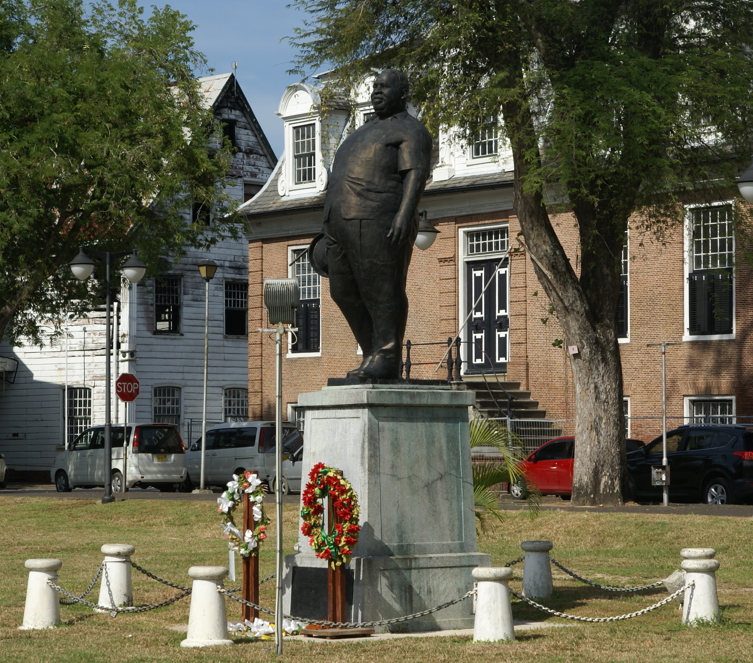 Statue of Johan Adolf Pengel, Onafhankelijkheidsplein, Paramaribo, Surinam.